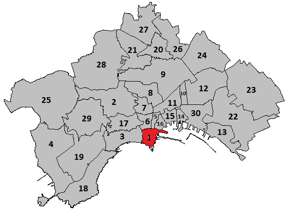 San Ferdinandino in Naples